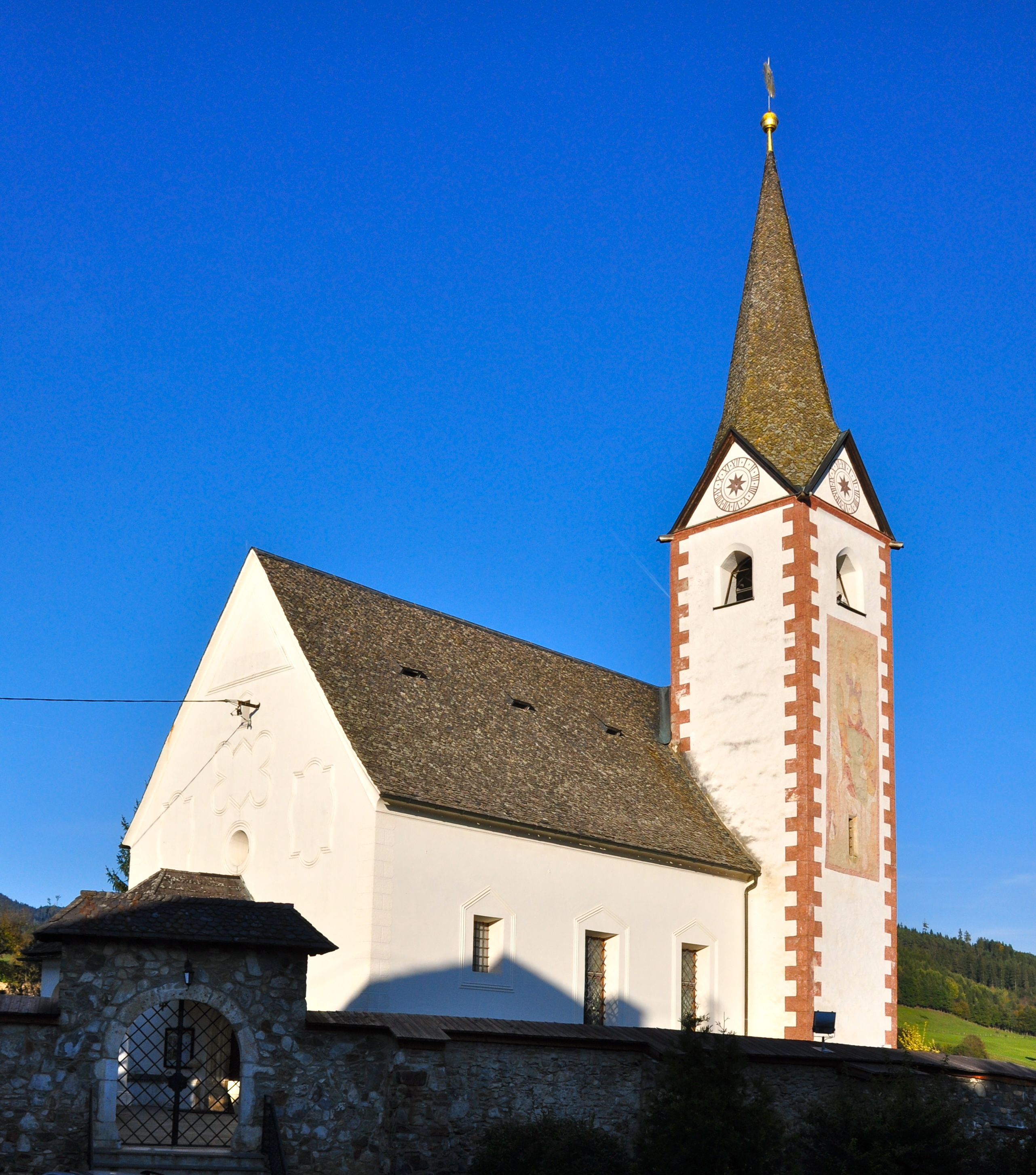 Parish church Saint George at Timenitz, municipality Magdalensberg, district Klagenfurt Land, Carinthia, Austria